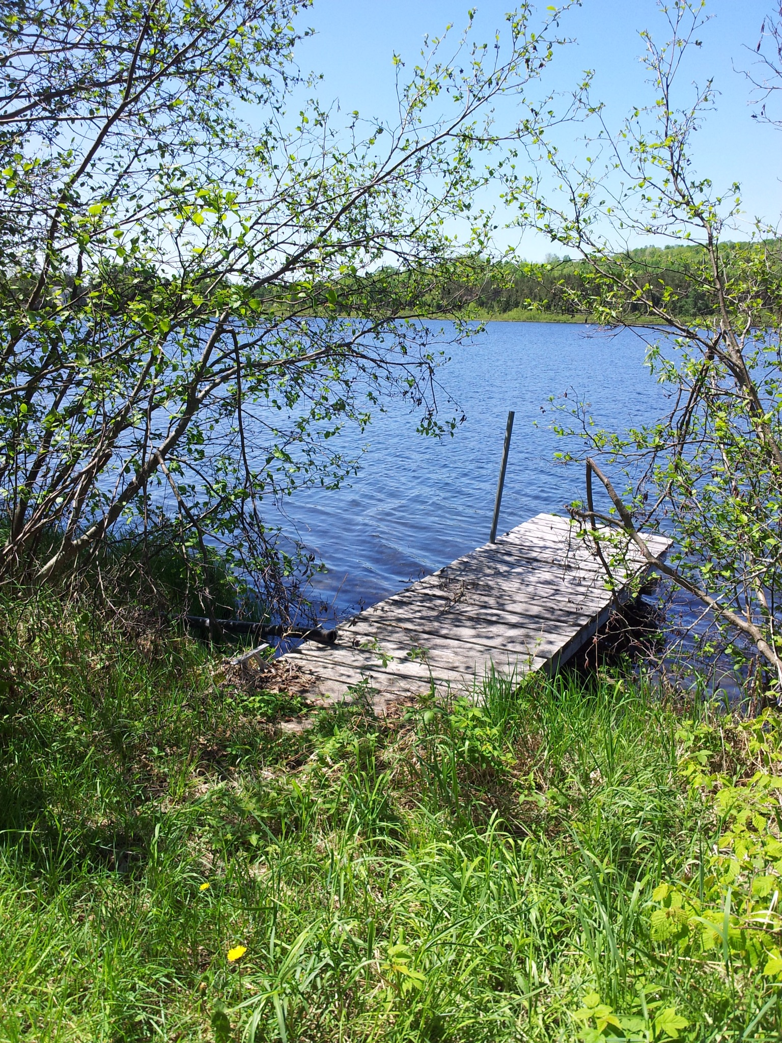 Lac des Pins, Aumond, Quebec, Canada, springtime